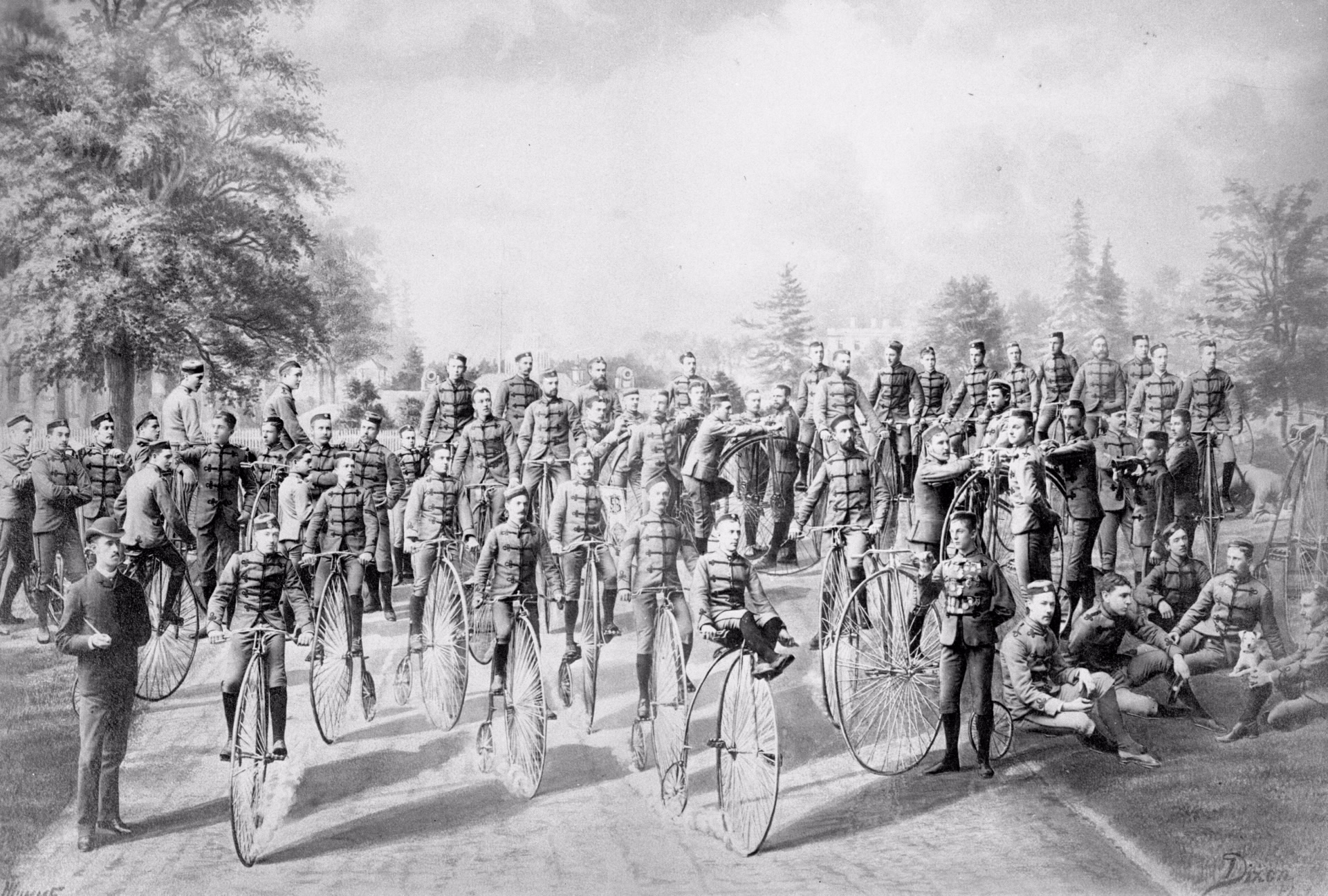 A composite photograph taken in 1884, the Wanderer’s Bicycle Club is depicted in front of the Queen’s Park fountain (University Ave, Toronto). The Toronto Daily Mail described one of their trips to Hamilton, August 16, 1883: “As customary to this club, they wandered in small parties into that city, (...) There were, in all, about 30 wheelsmen present, the dark blue and scarlet of the Hamilton club making an appealing contrast with the grey and black of the Wanderers.” Creator: Humme, Ludwig Eugen Julius Friedrich (1839-1891) Date: 1884 Identifier: X 28-5 Cab II Format: Picture Rights: Public domain Courtesy: Toronto Public Library. More information: (view details and larger image)